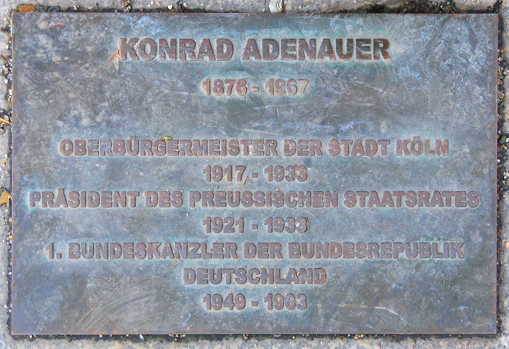 Memorial plaque, Konrad Adenauer, Adenauerplatz , Berlin-Charlottenburg, Germany Koordinate:52°30′2″N 13°18′26″E / 52.50056°N 13.30722°E